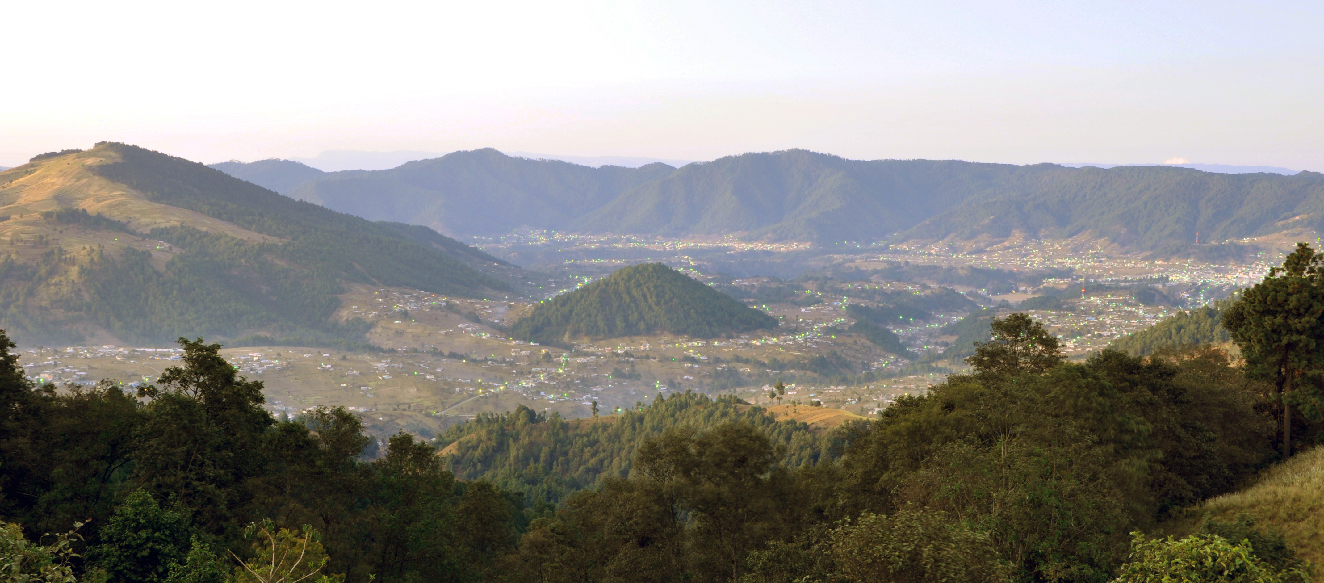 The town of Totonicapan, in the Department of Totonicapan, alont the Pan American Highway.